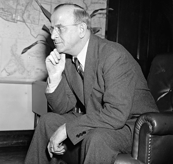 Karl Stefan, US Representative from Nebraska